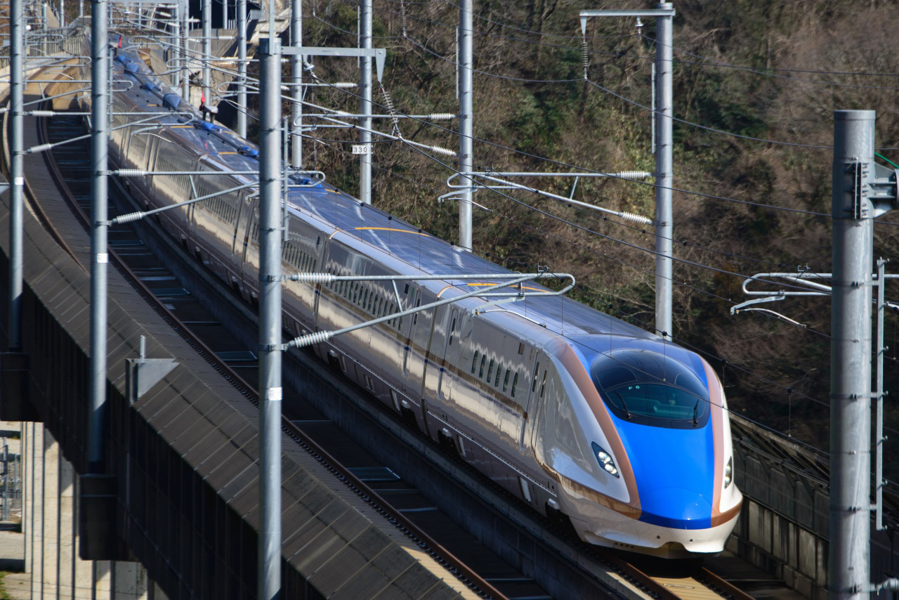 JR East E7 series shinkansen set F6 on a preview run on the Hokuriku Shinkansen near Sugise Tunnel between Shin-Takaoka and Kanazawa